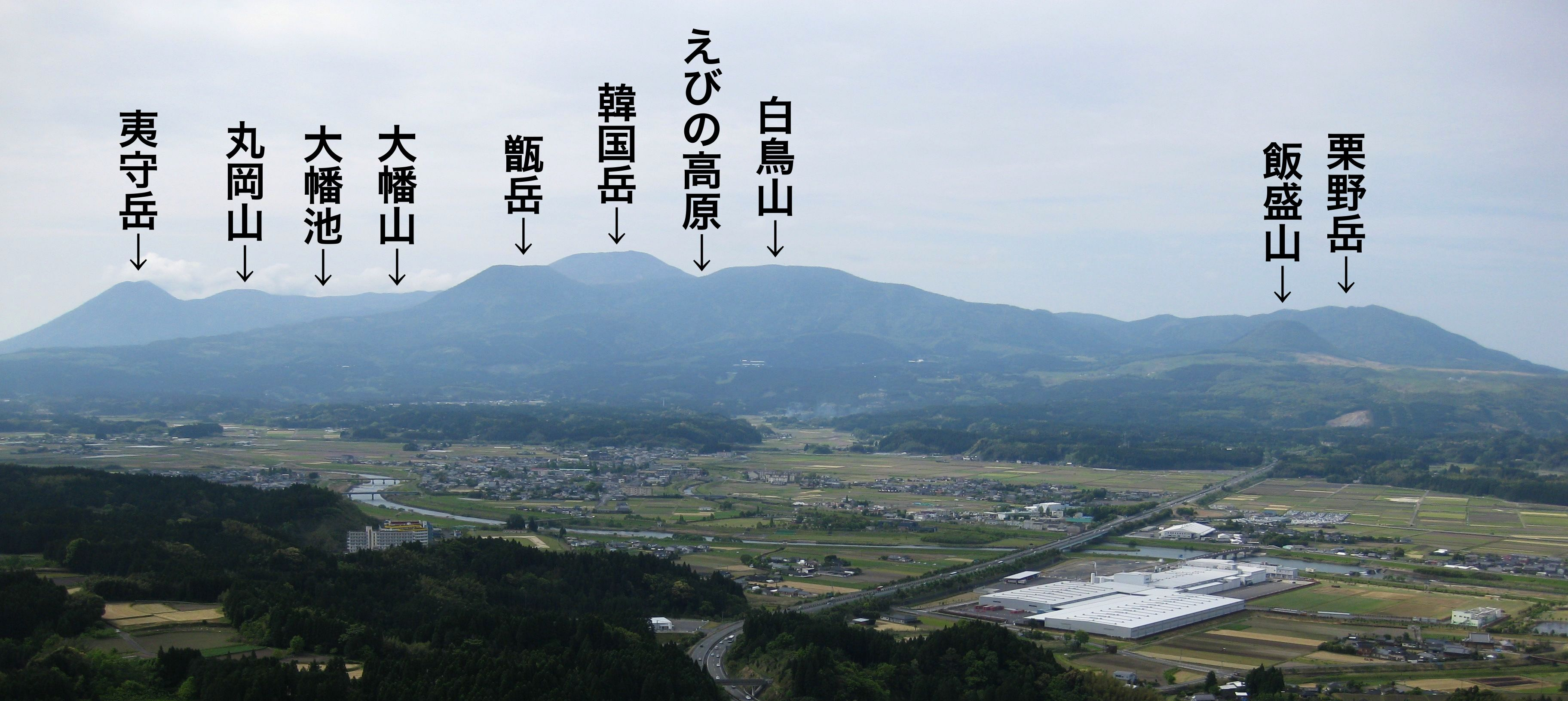 Kirishima Mountains in Kyūshū, Japan. Taken from Kirino-ohashi Bridge on Route 221.